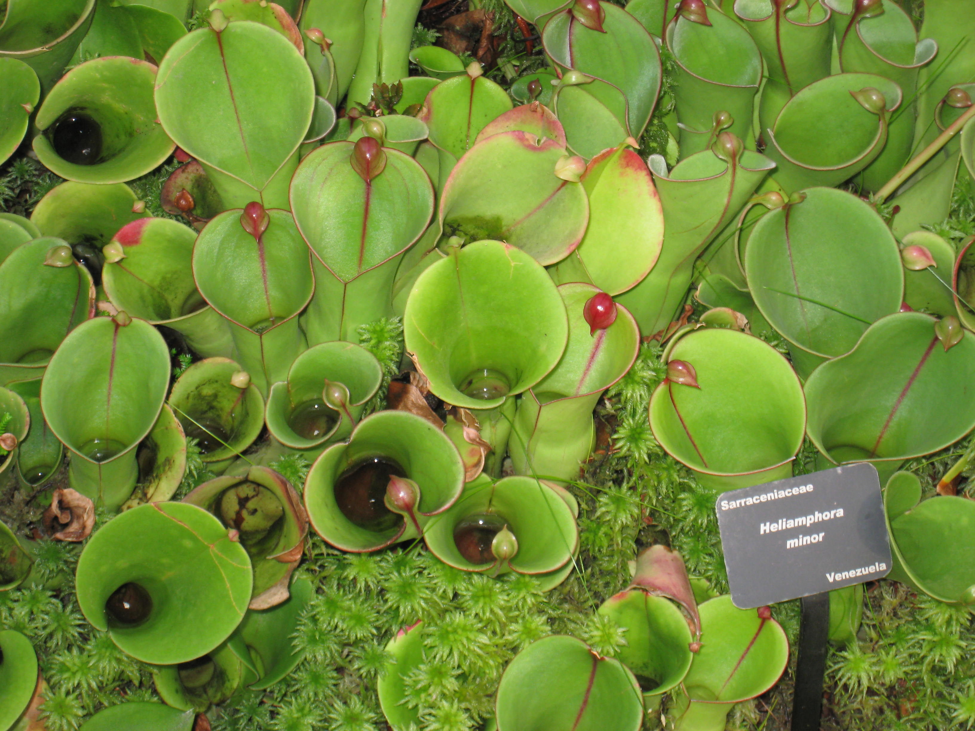 Heliamphora minor. Specimen in the Atlanta Botanical Garden, Atlanta, Georgia, USA.